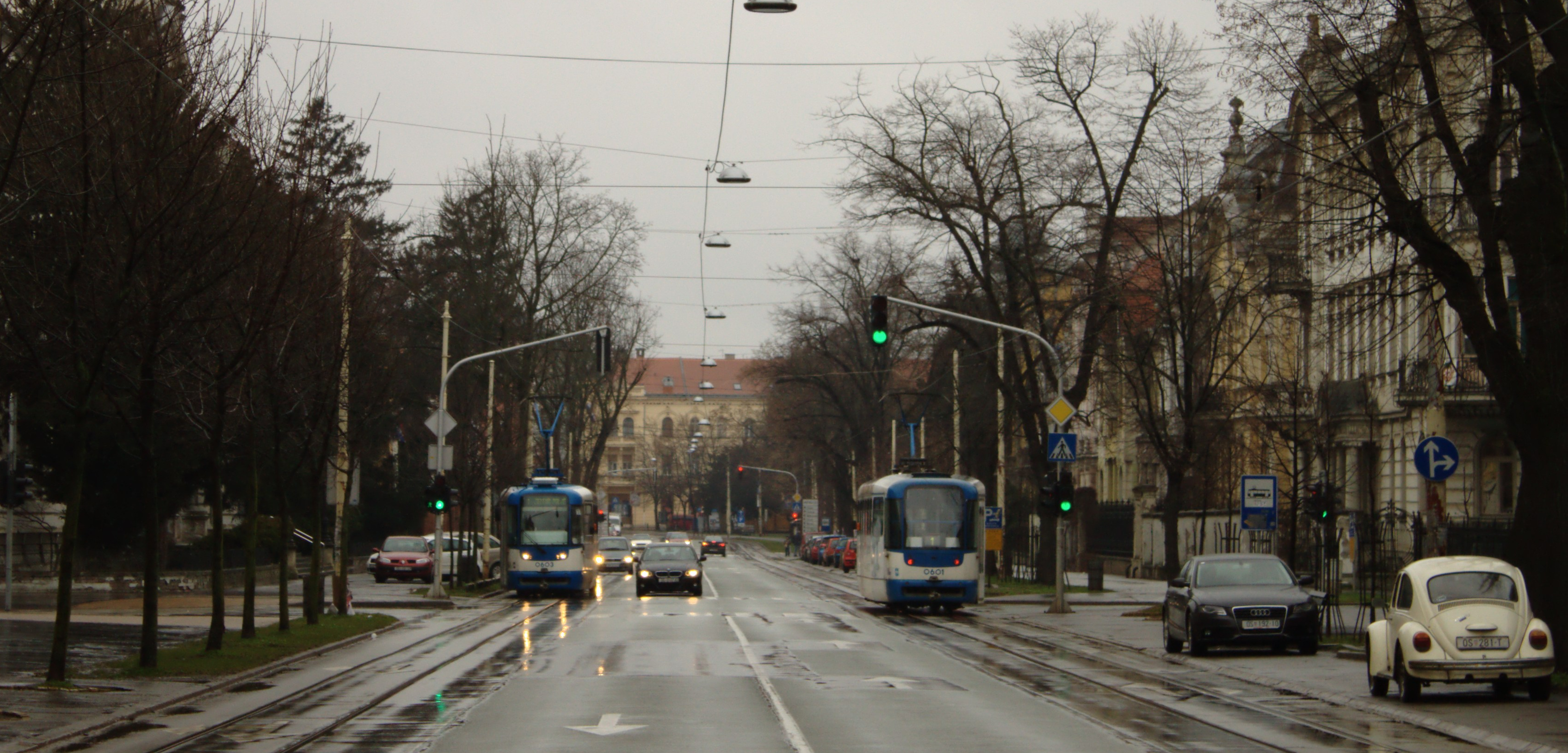 Two Tatra T3R.PV trams in Kapucinska street; Osijek, Croatia